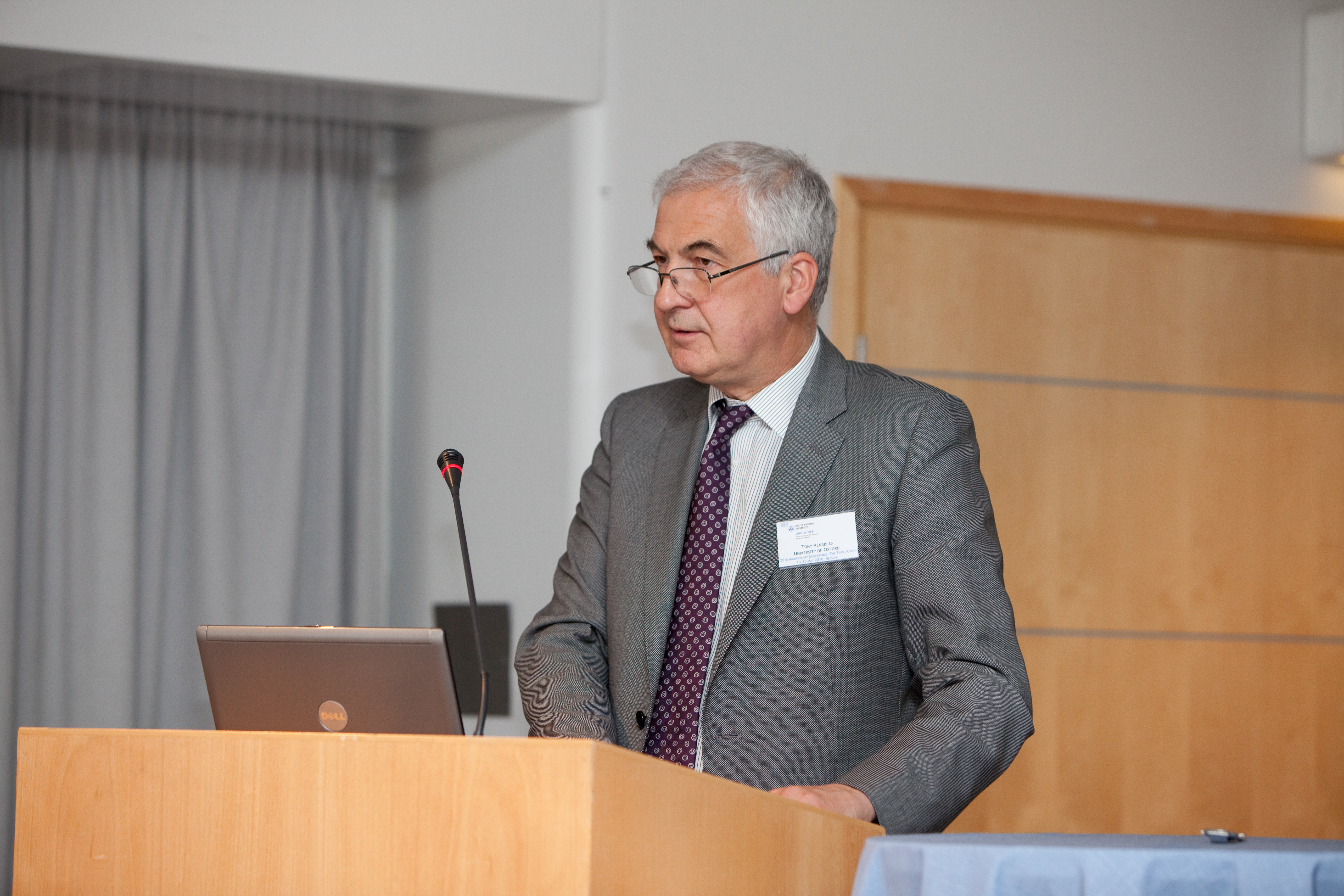 Anthony J. Venables, Professor, University of Oxford.